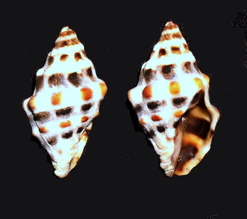 Engina zepa., Philippine shell belonging to the family Buccinidae: GL 1998-9 19mm